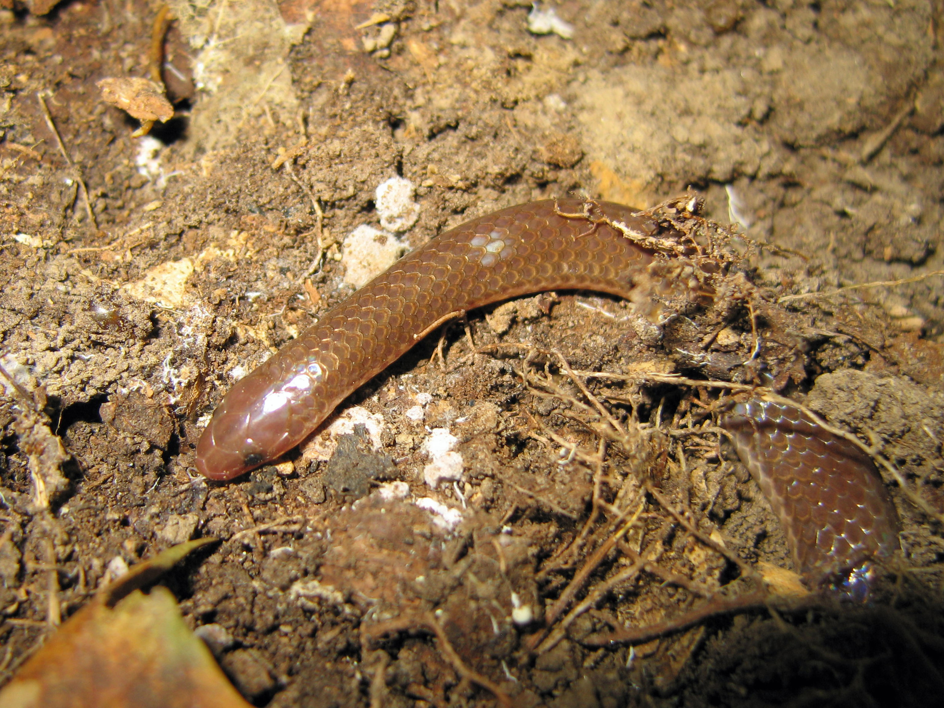 Eastern Worm Snake (Carphophis amoenus amoenus) in Belknap, Illinois, US.